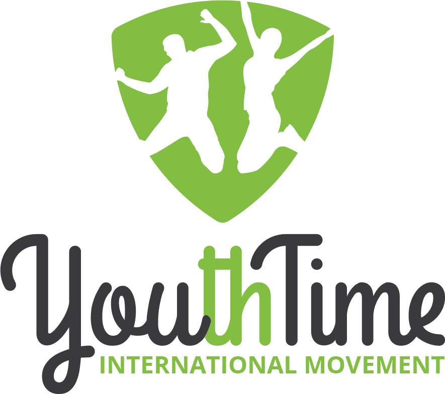 Youth Time International Movement is an internationally oriented non-profit, non-political organization which actively represents a platform of dialogue between cultures and generations.